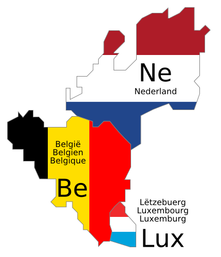 Schematic map of Benelux. The country names are given in the official languages of each state.